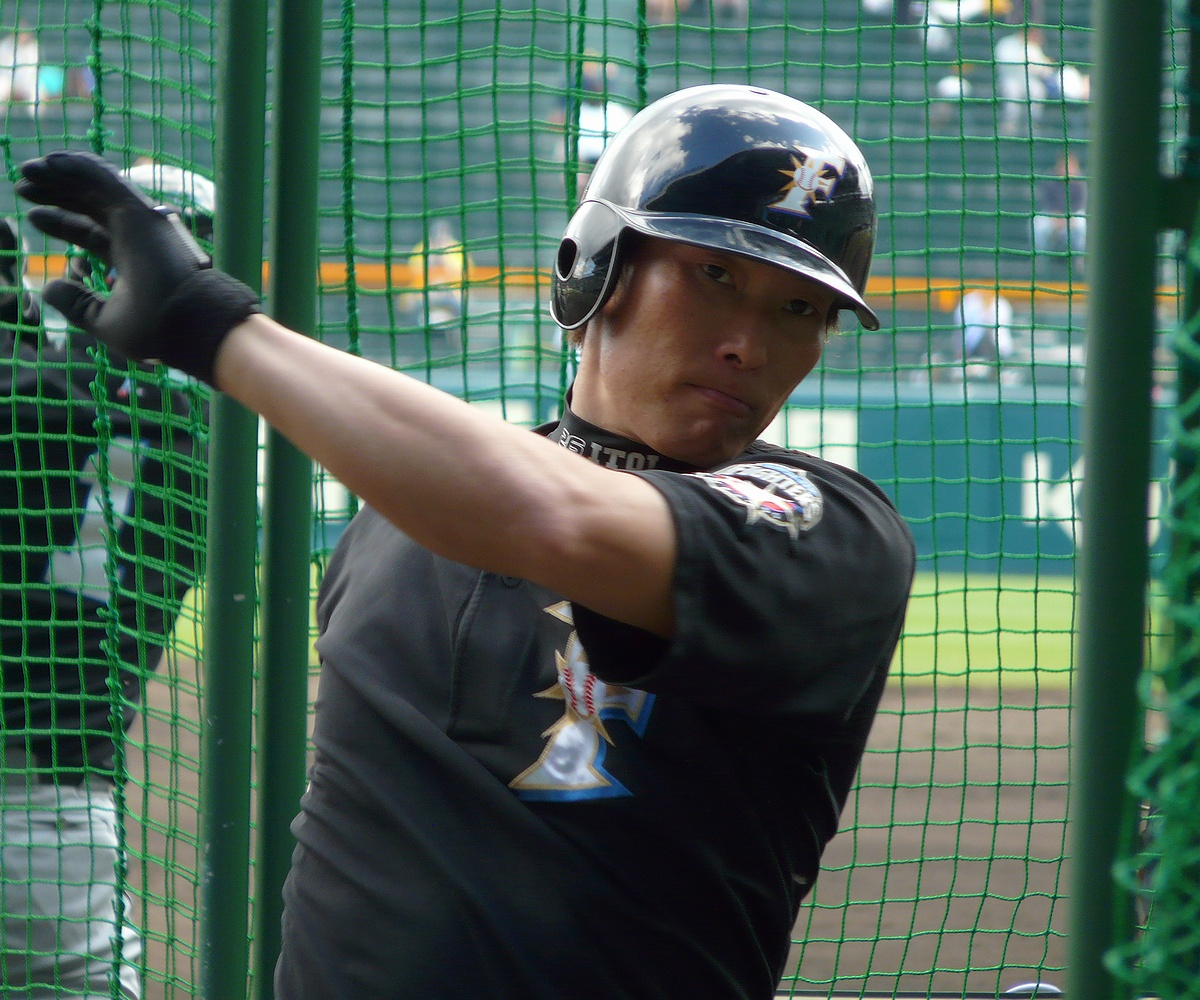 Yoshio Itoi, outfielder of the Hokkaido Nippon-Ham Fighters, at Hanshin Koshien Stadium.